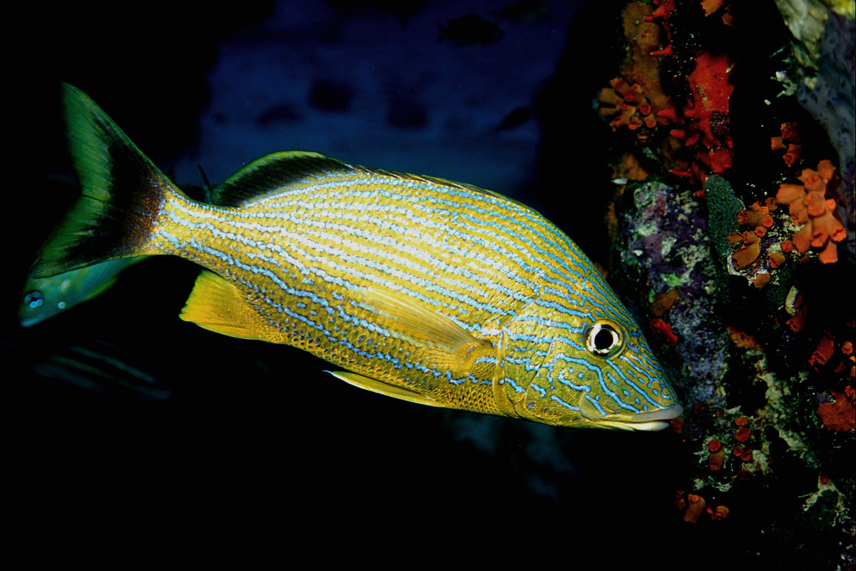 A Bluestriped Grunt swims in the warm waters of Bonaire. The sponges and coral to the right add some color. They were so drab when I composed the shot, but the strobe adds back the red and orange that the waters rob from the sunlight. (Haemulon sciurus) Fuji Velvia 50